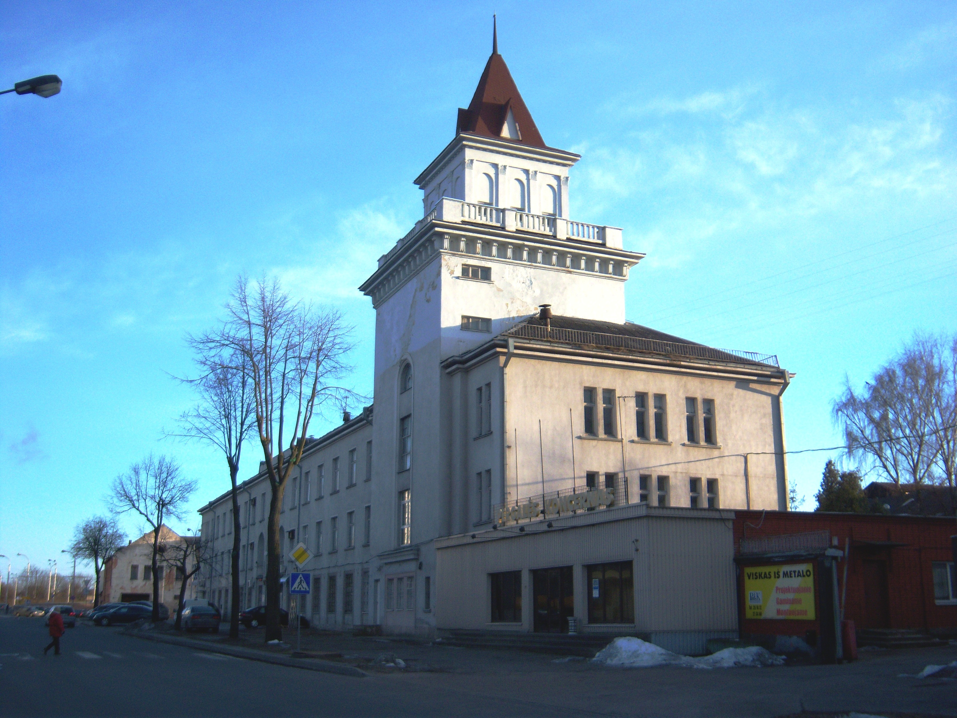 Concern „Pergalė“, Kaunakiemio str., Kaunas, Lithuania